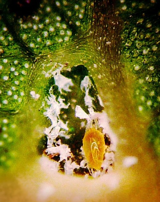 Yellow mite inside domatium of Cinnamomum camphora, San Francisco, CA.